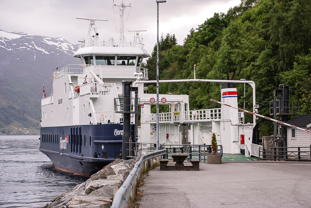 MF Davik at Stårheim ferry terminal in Nordfjord